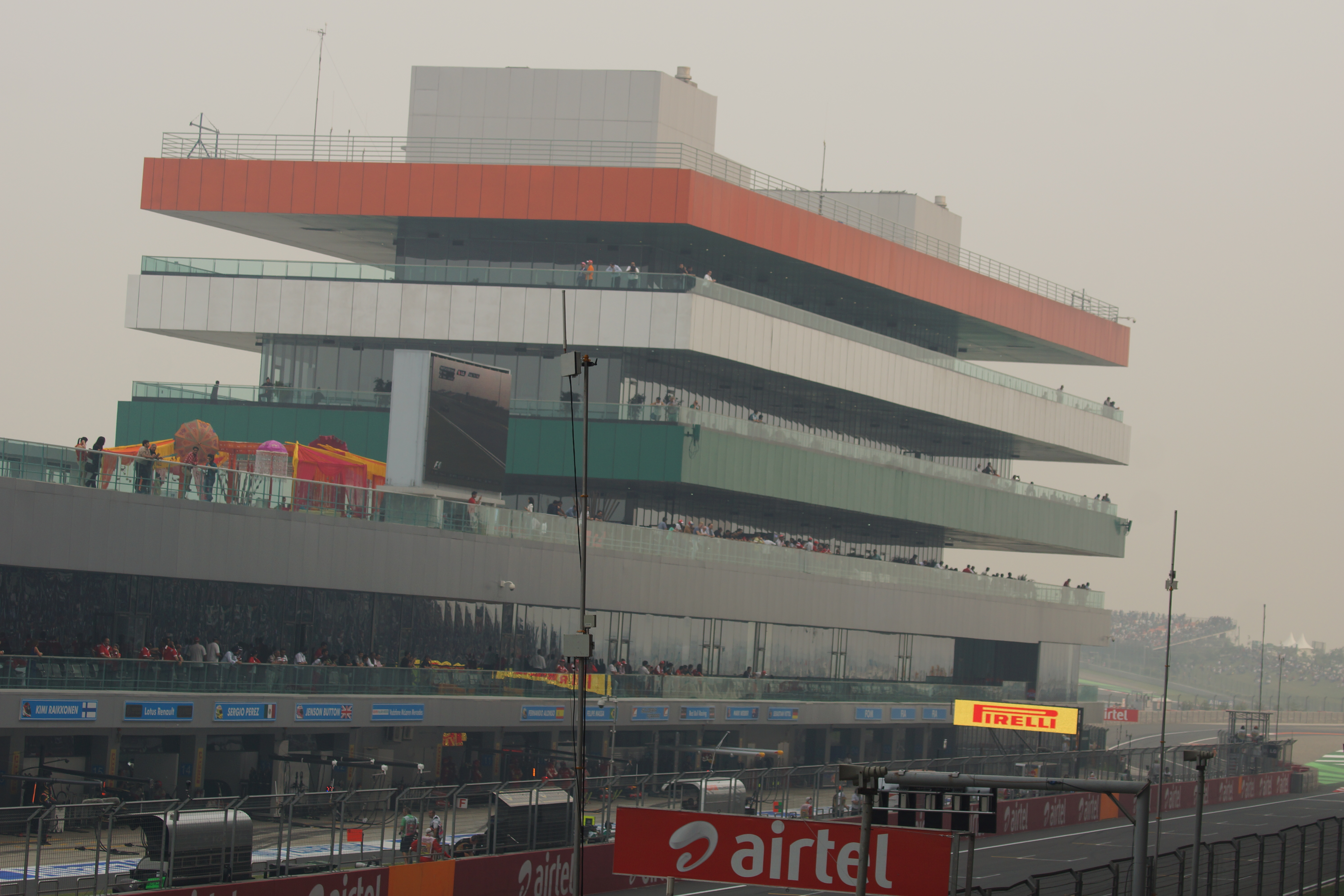 This file shows Paddock Club of Buddh International Circuit at 2013 Airtel Indian Grand Prix.